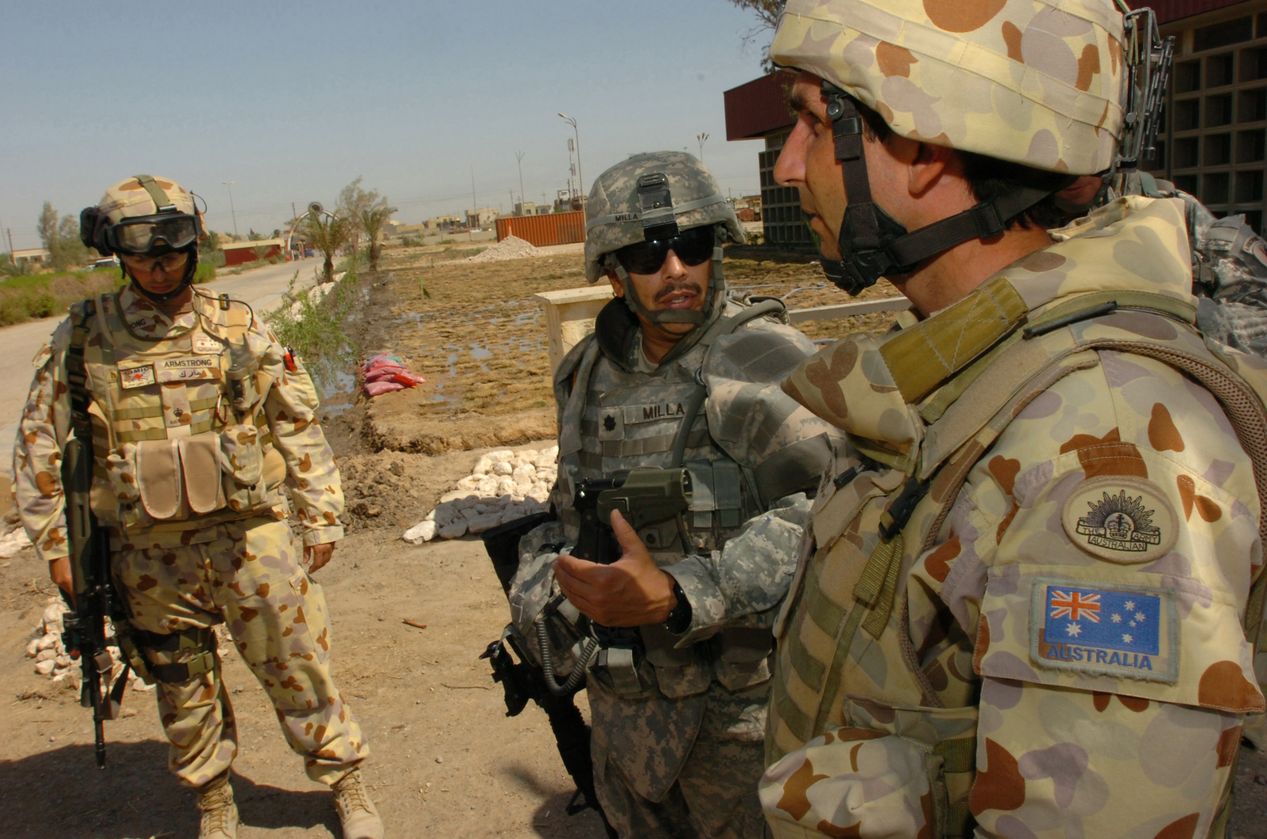 Lt. Col. Jorge Milla, deputy commander of the 358th Civil Affairs Brigade's National Vocational Technical Team, talks with Lt. Col. Jake Ellwood, the commander of Overwatch Battlegroup (West), the unit in charge of area defense, at a vocational/technical school in Nasiriyah, Iraq, during a site visit Saturday, Sept. 29. The Votech team's objective is to facilitate the teaching of trade skills such as plumbing or carpentry to local residents in these schools to deter militia recruitment.